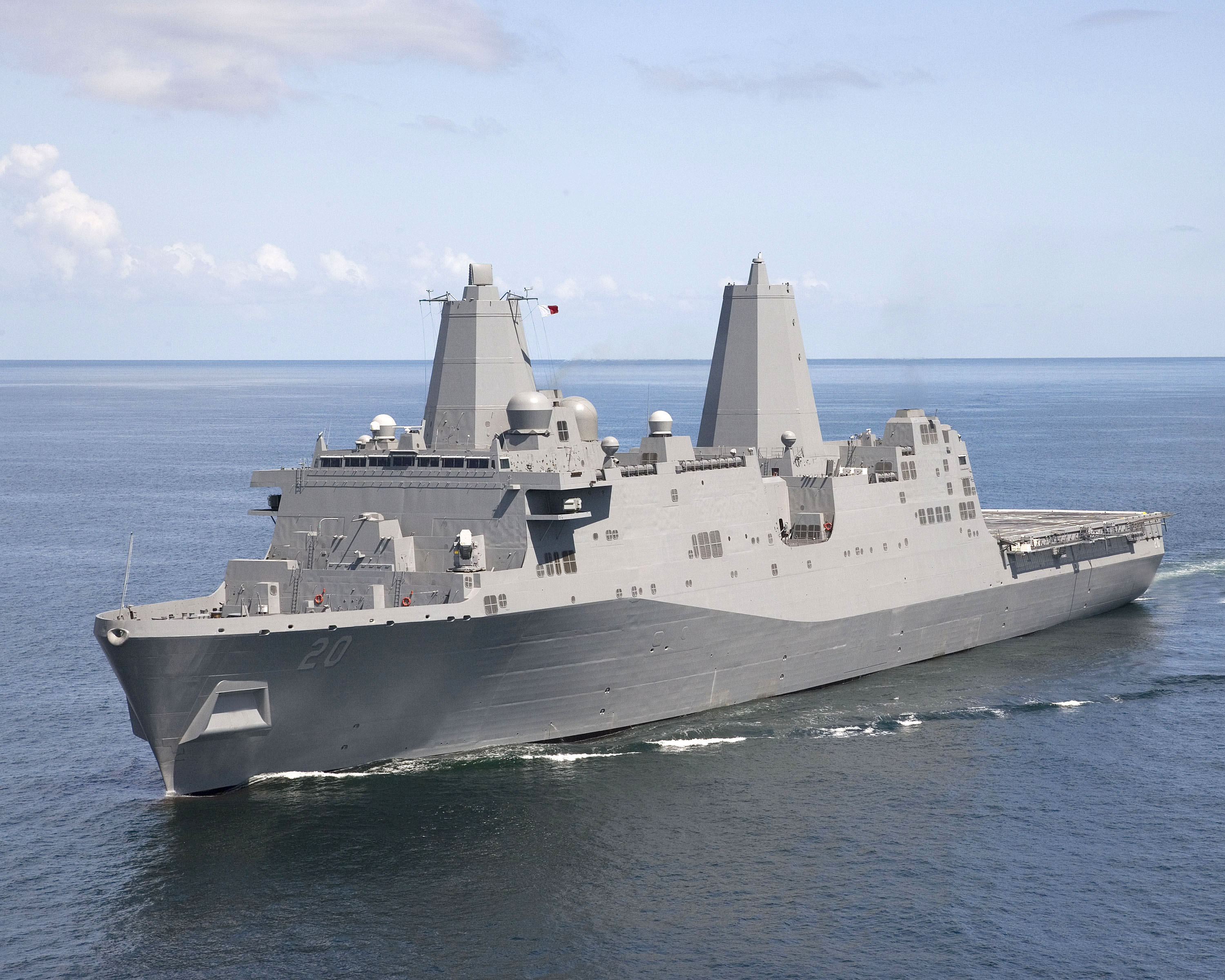 081201-N-0000X-001 NEW ORLEANS (Dec. 1, 2008) The amphibious landing dock ship pre-commissioning unit Green Bay (LPD 20) is underway from Northrop Grumman Shipbuilding Avondale Operations in New Orleans. The ship is on her maiden voyage en route to Long Beach, Calif., where she will be commissioned in January 2009 and become the second San-Antonio-class ship to be home ported in San Diego. (U.S. Navy photo)